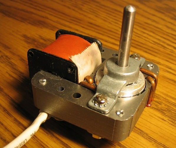 Photo of C-frame shaded-pole motor. Photo by user Meggar